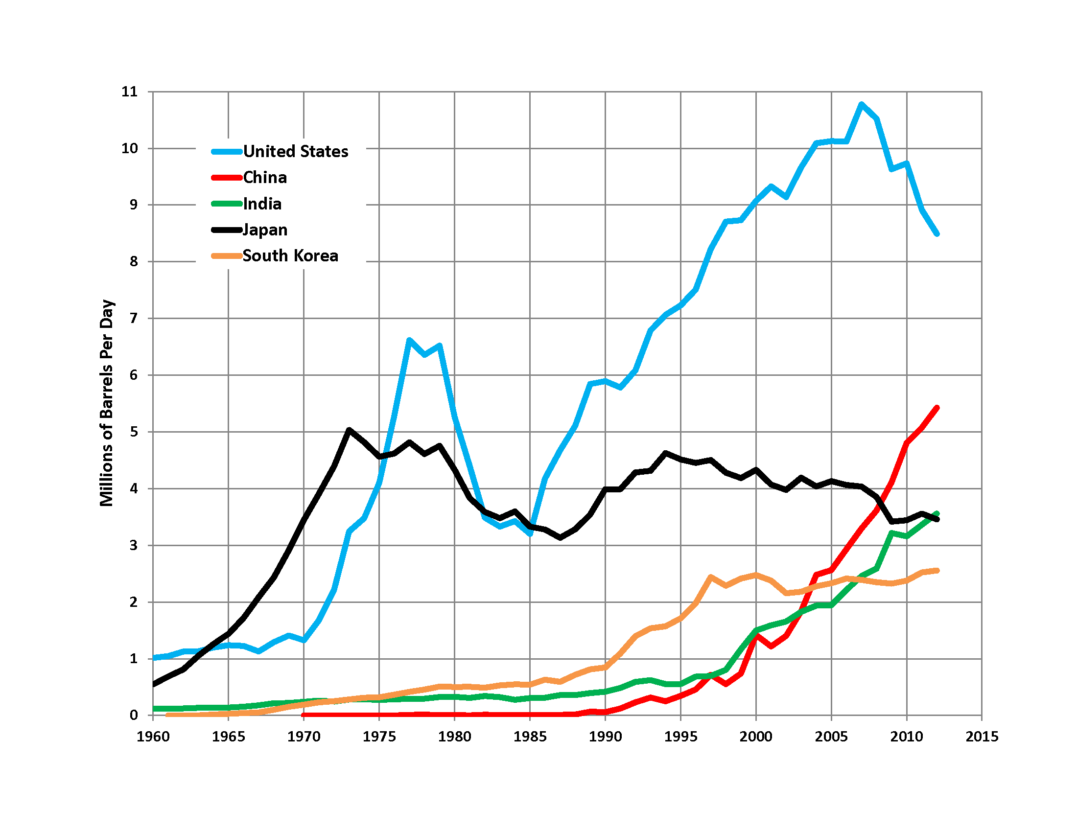 Trends in the top five crude oil-importing countries, 1960-2012